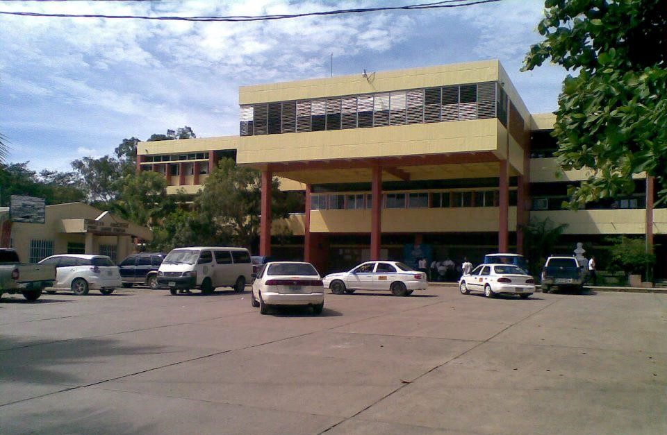 Edifico principal del Instituto Departamental León Alvarado de Comayagua Honduras. Contruido en 1950